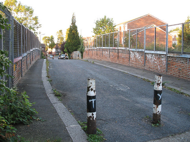 Prospect Place. Looking along Prospect Place towards East End Road. The bridge over the Northern Line has long since been closed to road traffic. The houses on the right are in Oakview Gardens. The two thin poles visible at the opposite end of the bridge are eruv markers. An eruv is a contiguous boundary denoted by string or natural markers (such as in this case, the Northern Line) that enables Orthodox Jews to carry items or push baby strollers within its borders during the Sabbath. The string between the poles is too thin to show in the photo.